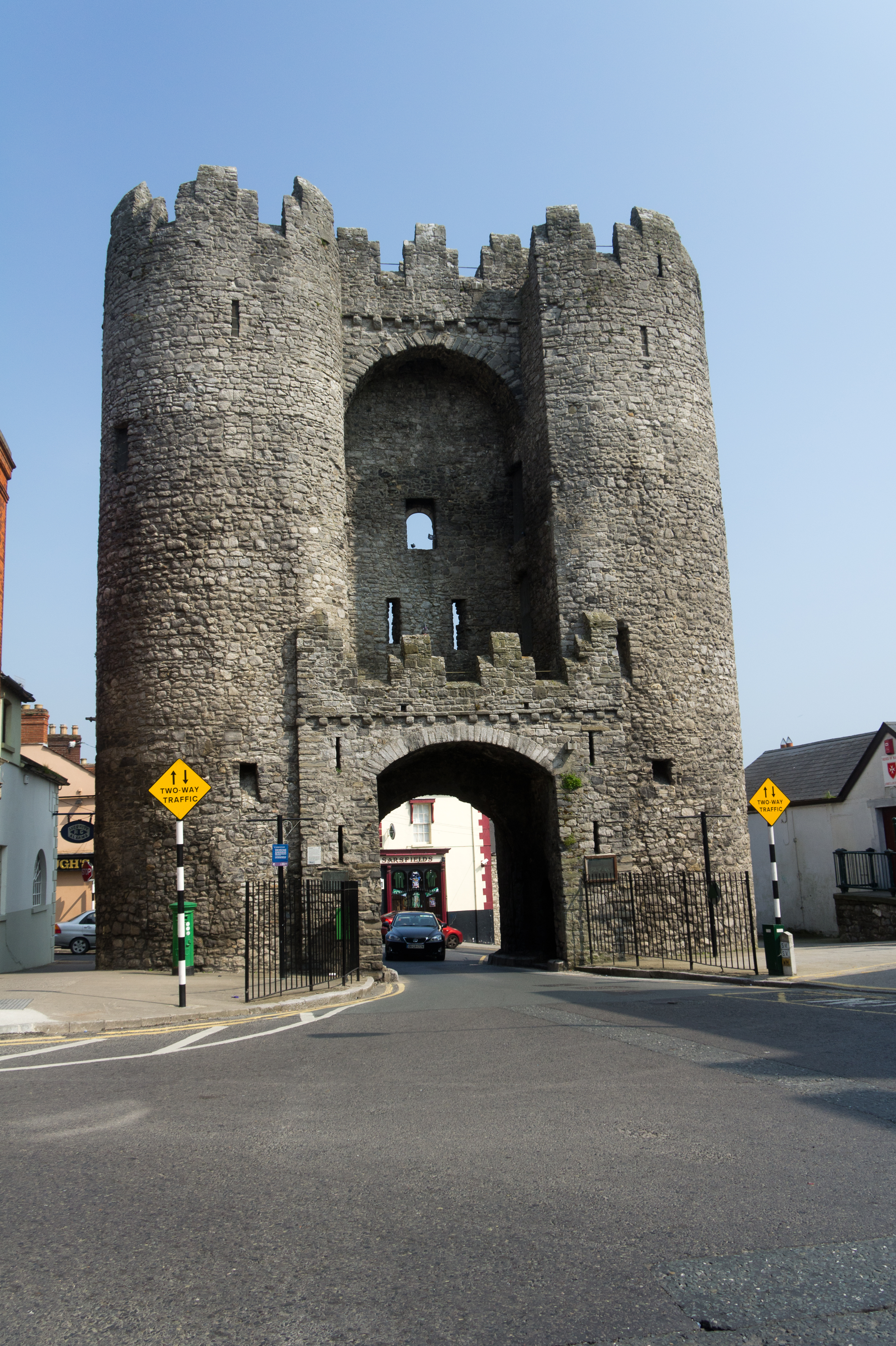 Laurence's Gate is a barbican which was built in the 13th century as part of the walled fortifications of the medieval town of Drogheda, County Louth, in Ireland. The original names for Laurence St and Laurence's Gate were East St and East Gate, respectively. In the 14th century, the street and Gate were renamed because they led to the hospital of St. Laurence, which stood close to the Cord church. It consists of two towers, each with four floors, joined by a bridge at the top and an entrance arch at street level. Entry is gained up a flight of stairs in the south tower. There is a slot underneath the arch from where a portcullis could be raised and lowered. Historians have wondered why such an enormous barbican was built here in the east of the town, when the main artery through the town has always been north/south. For example, a similar barbican in Canterbury is less than half the height of Laurence's Gate. However, from the top of the Gate, the estuary of the Boyne and the four mile stretch of river from there to Drogheda can be clearly observed. This is the only point in the town with a clear view of any potential sea invasion. This is proposed as a reason why Lawrence's Gate was built to such a height. A portion of the town wall remains to the south of Laurence's Gate. North of Laurence's Gate, the wall ran up Palace St/King St where the footpath is today. The depth of the basements of the houses and school suggest the presence of a steep trench outside the wall. Over the centuries, as the walls and gates fell into disrepair, the rubble stones were reused in later buildings. For example, the house and walls at the corner of Laurence and Palace St and stone walls in Constitution Hill. Old pictures show that a toll booth and gate house remained until the early 19th century. The shop beside Laurence's Gate was a bicycle shop 100 years ago. The green letter box dates from a time when there was a post office there.